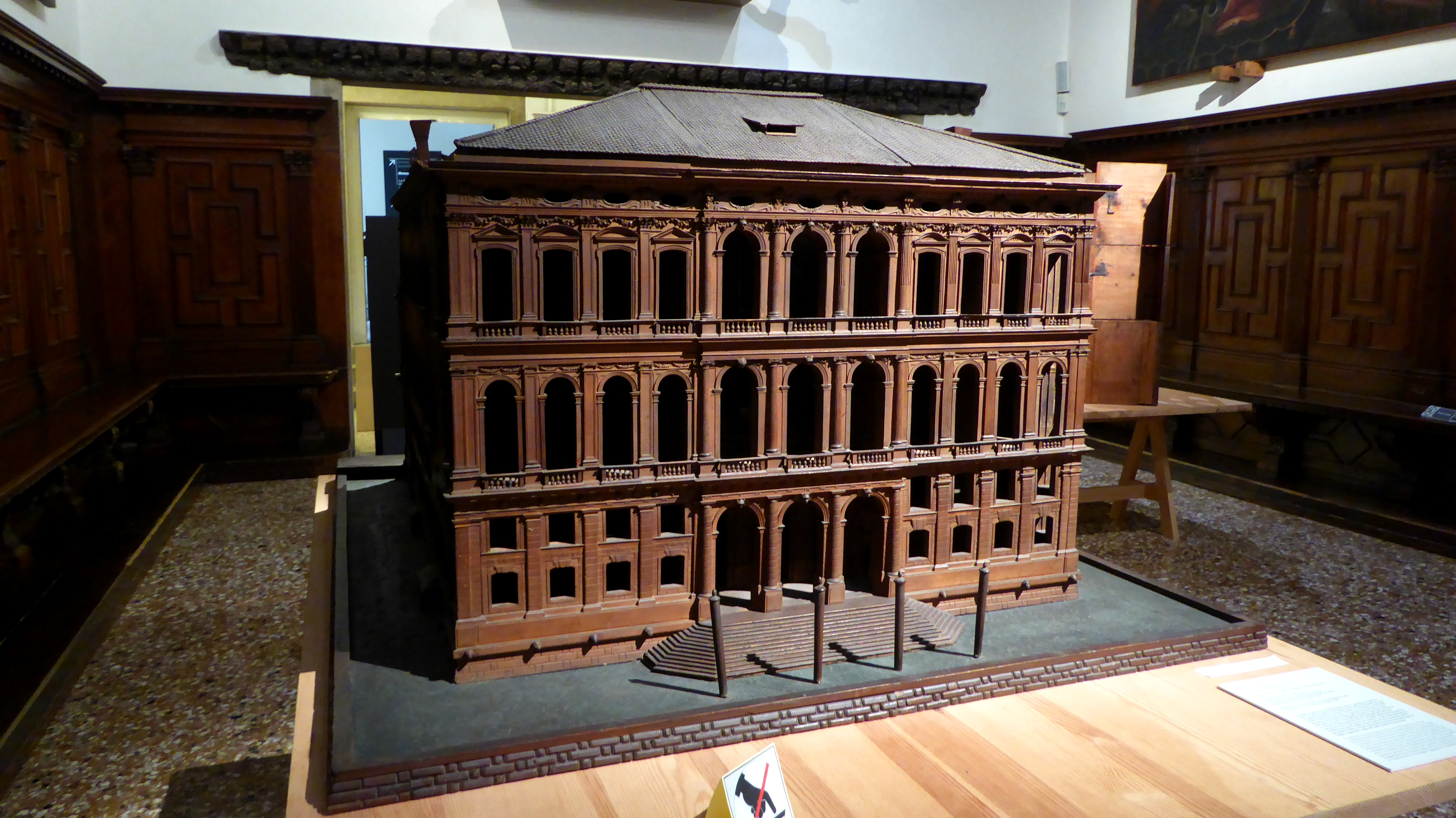 A wooden preparatory model of the Palazzo Venier Dei Leoni, constructed in the mid-eighteenth century. The model is housed in the Museo Correr, a museum in San Marco, Venice.